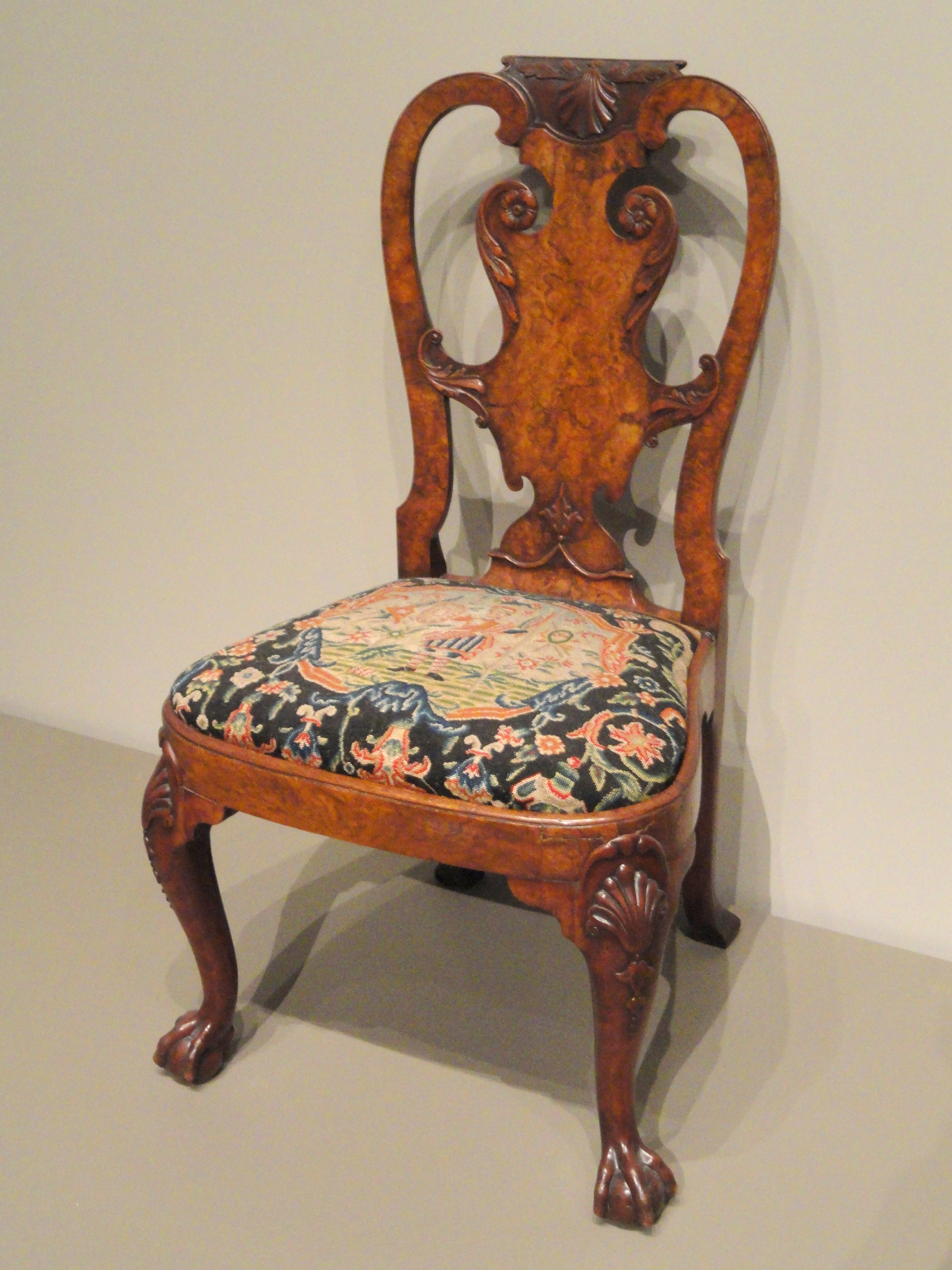 Giles Grendey (British, 1693-1780): George I walnut side chairs with a compass seat raised on splayed cabriole front legs carved with a shell on each knee and with ball-and-claw feet and raked tapered back legs, veneered with fine burr walnut on the back and the seat rails, c. 1740. Seat upholstered in needlework. Exhibit in the Art Institute of Chicago, Chicago, Illinois, USA. This artwork is in the public domain because the artist died more than 70 years ago.